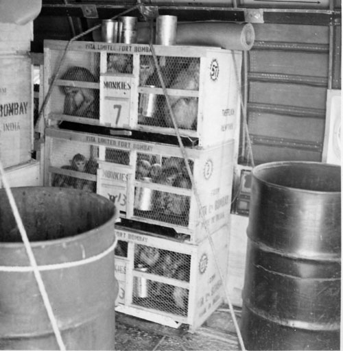 In the mid-1950s, Transocean Airlines flew many flights from India and the Philippines with 1600 to 2,000 monkeys each. The monkeys were used for making the Salk polio vaccines.